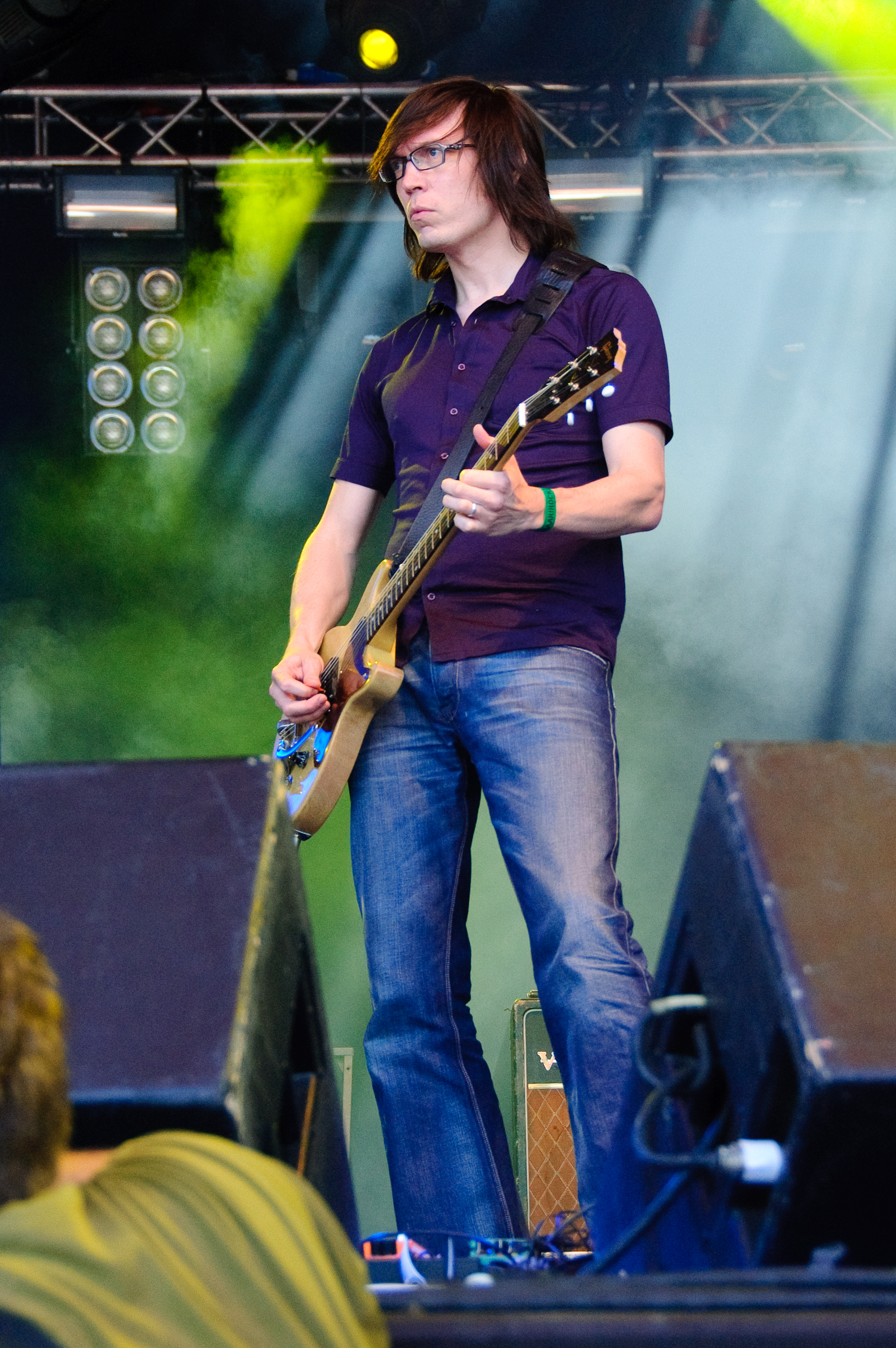 Gutarist Niklas "Skele" Varisto of Egotrippi performing at the Ilosaarirock 2009 festival in Joensuu Finland.